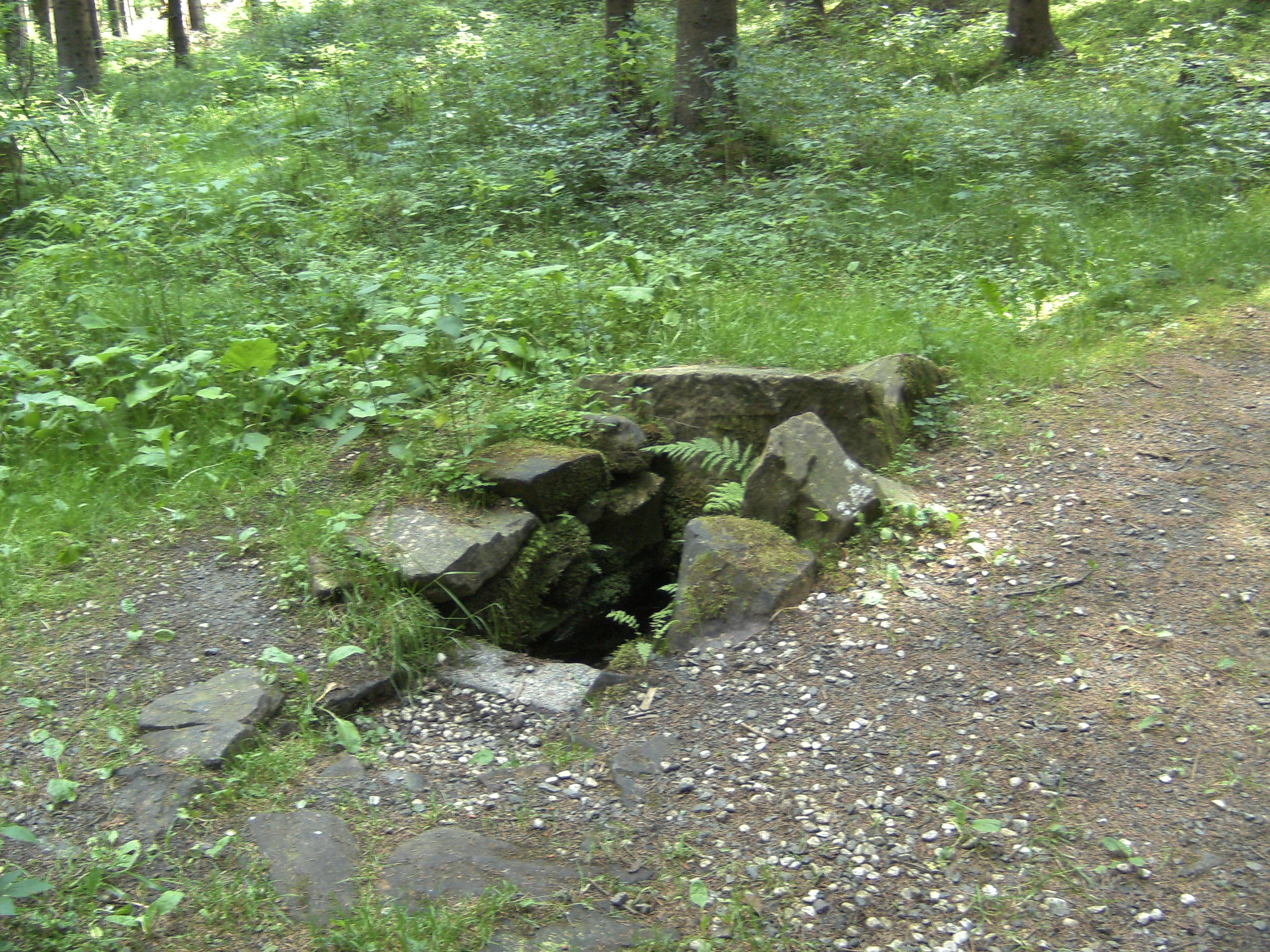 Fountain of Langenbach